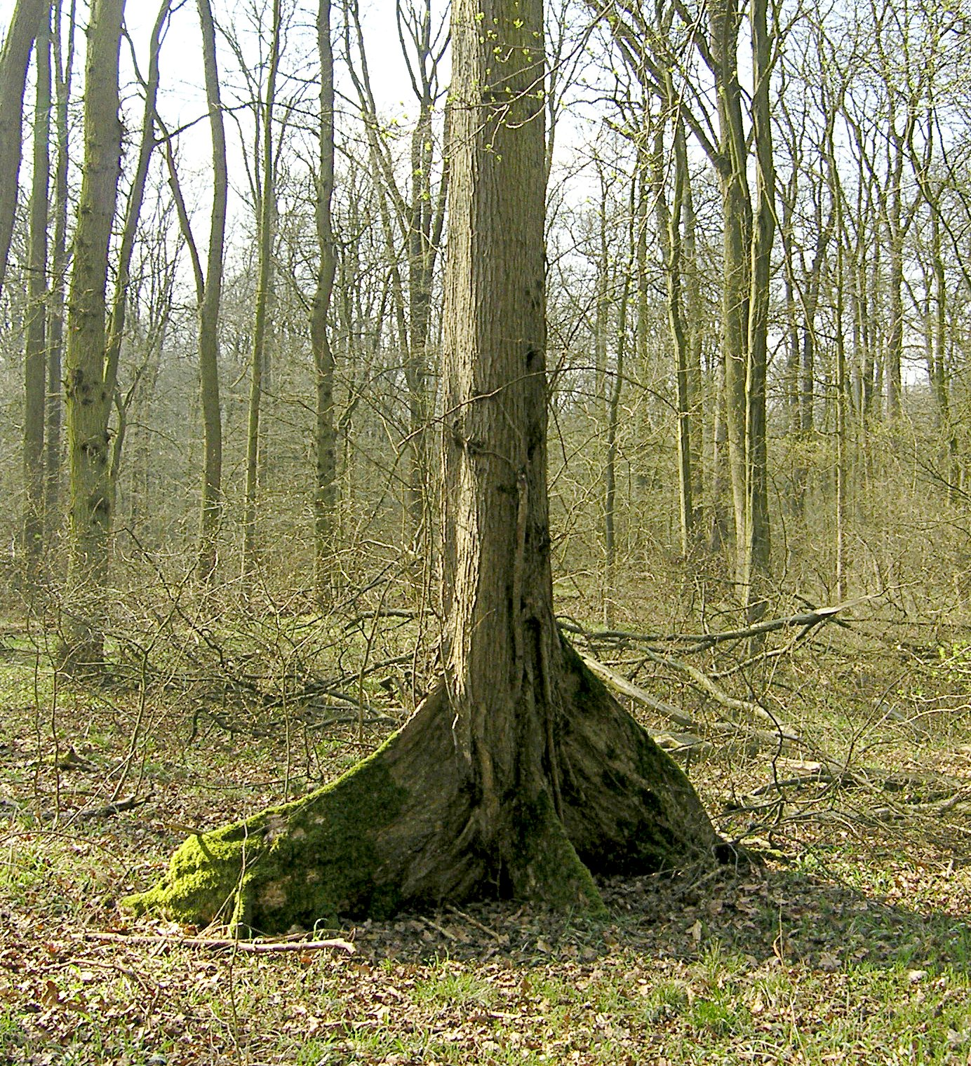 Buttress root of Ulmus laevis. Location: Münster, NRW, Germany